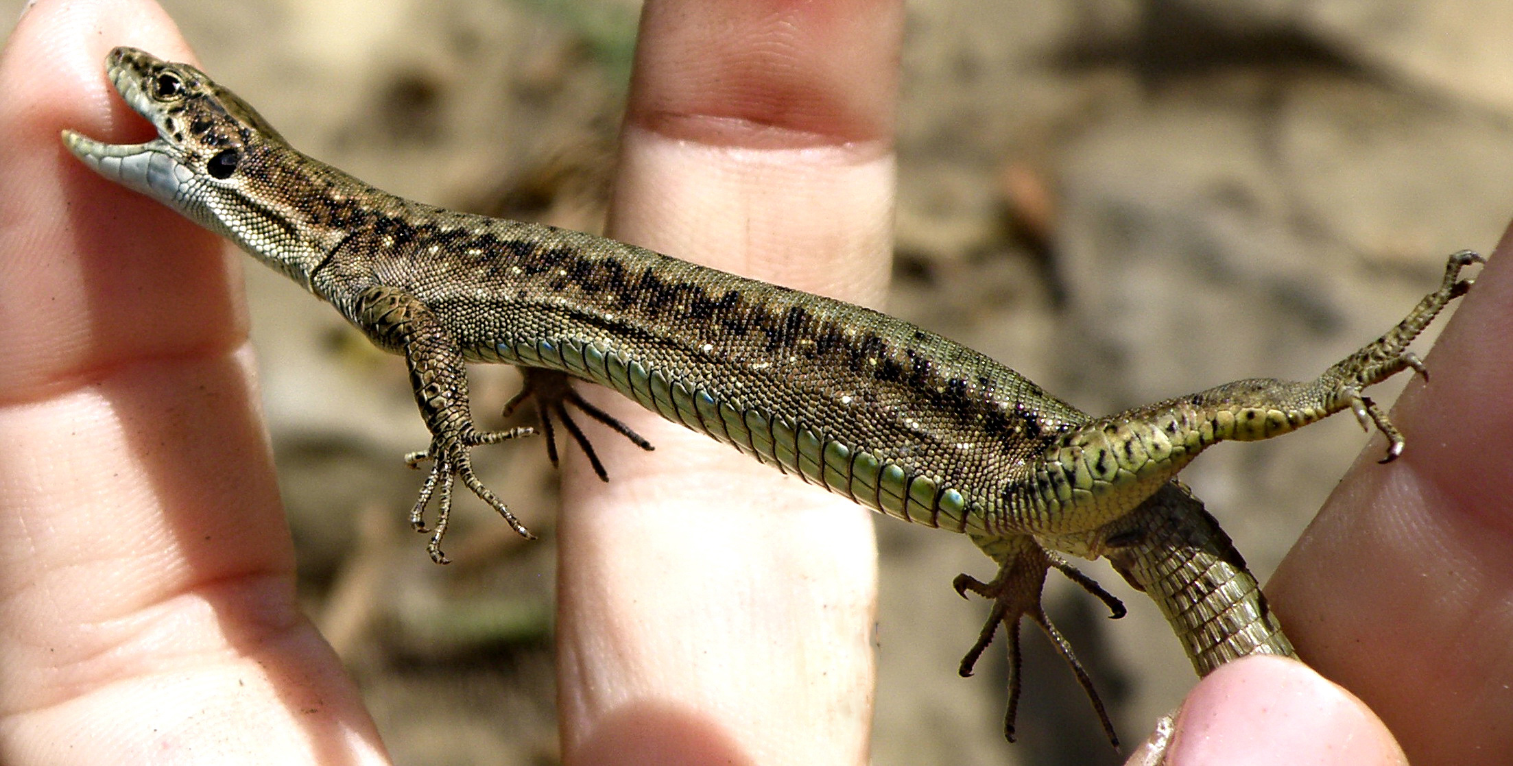 Darevskia dahli in hands